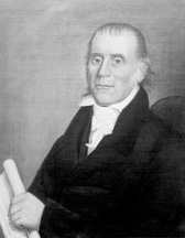 Andrew Gregg (June 10, 1755 – May 20, 1835), who represented Pennsylvania in the United States House of Representatives from October 24, 1791 until March 4, 1807, and then in the United States Senate from October 26, 1807 until March 4, 1813.